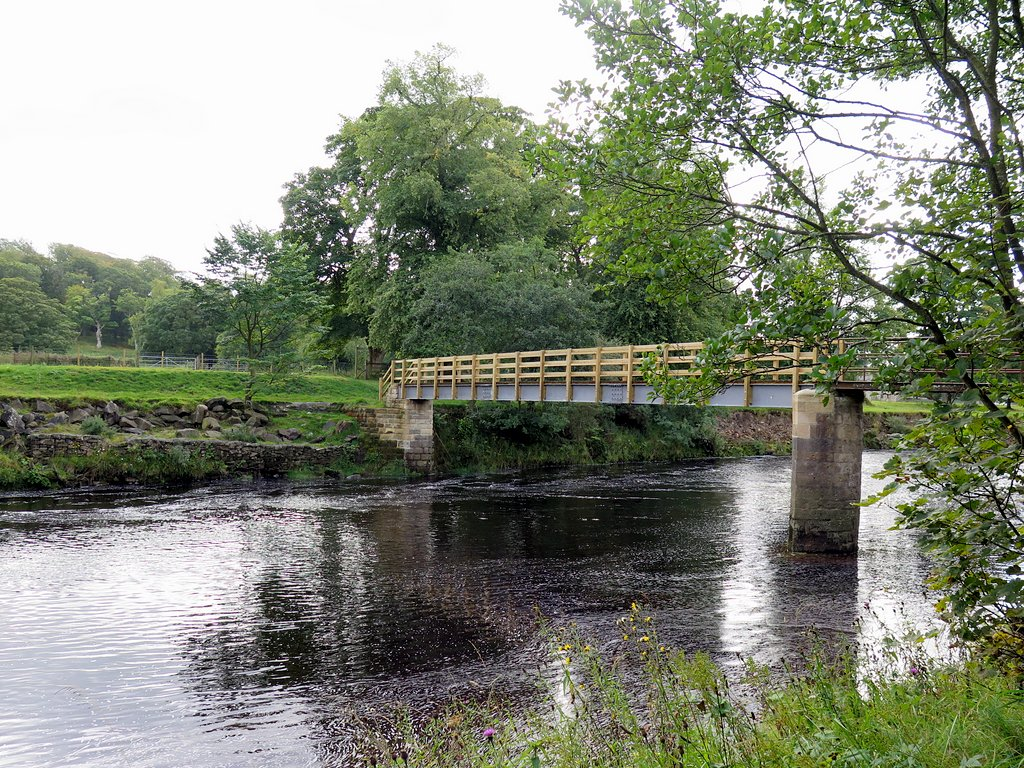 Footbridge over River South Tyne near Featherstone Castle